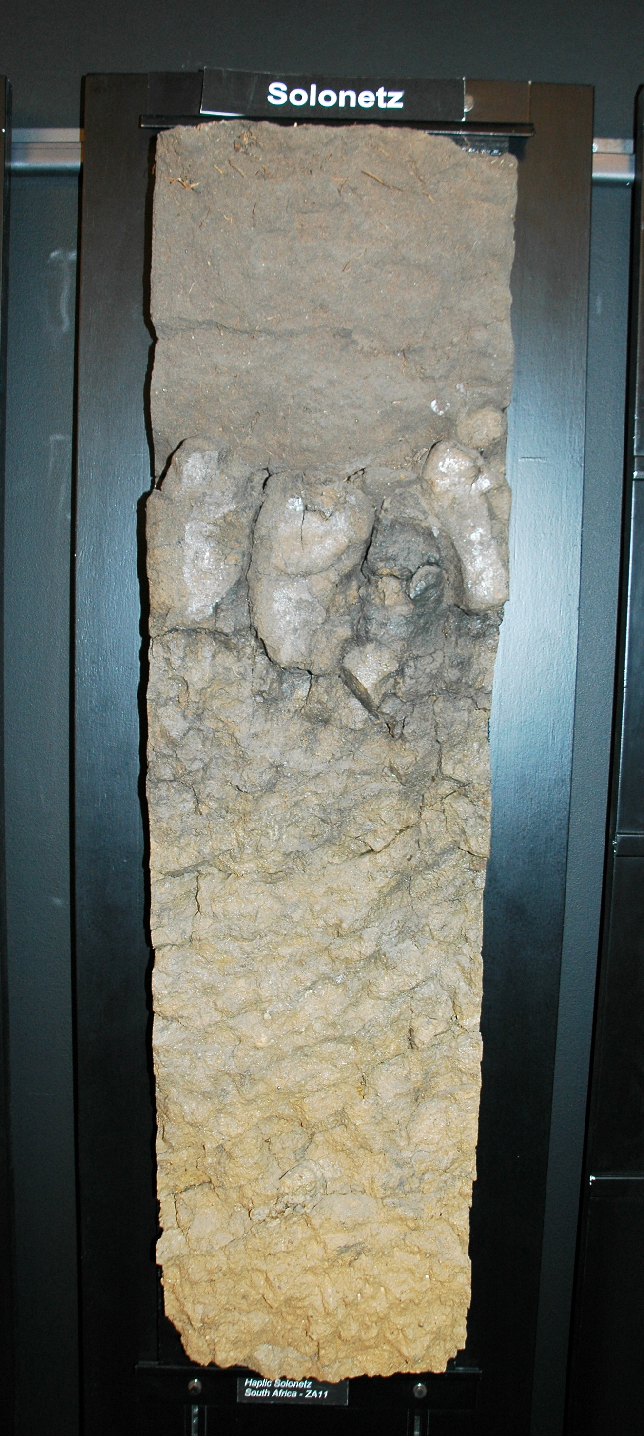 Soil profile of a Haplic Solonetz